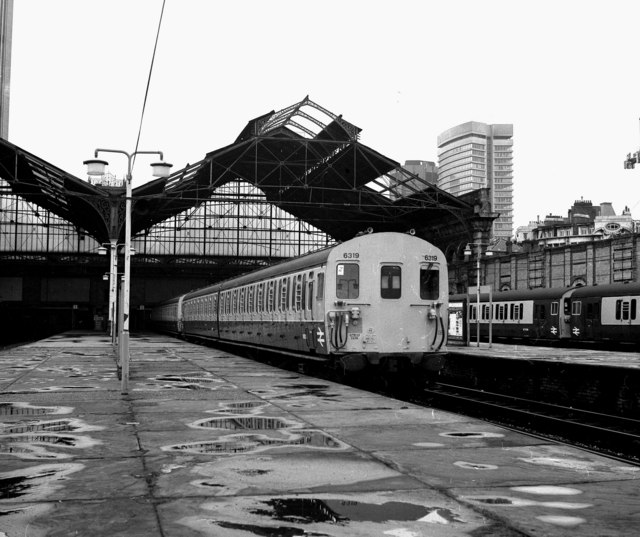 Broad Street station Broad Street had once been a very busy station, with local and suburban services from all over the Greater London area, and some beyond. But by 1985 it was at a very low ebb, with only the half-hourly Richmond service remaining. Complete closure was not very far off. This photograph shows a Richmond train, formed of two Southern Region '2-EPB' units, about to depart. These units had been fitted with window bars for use on this service, because of the very limited clearance in Hampstead Tunnel.